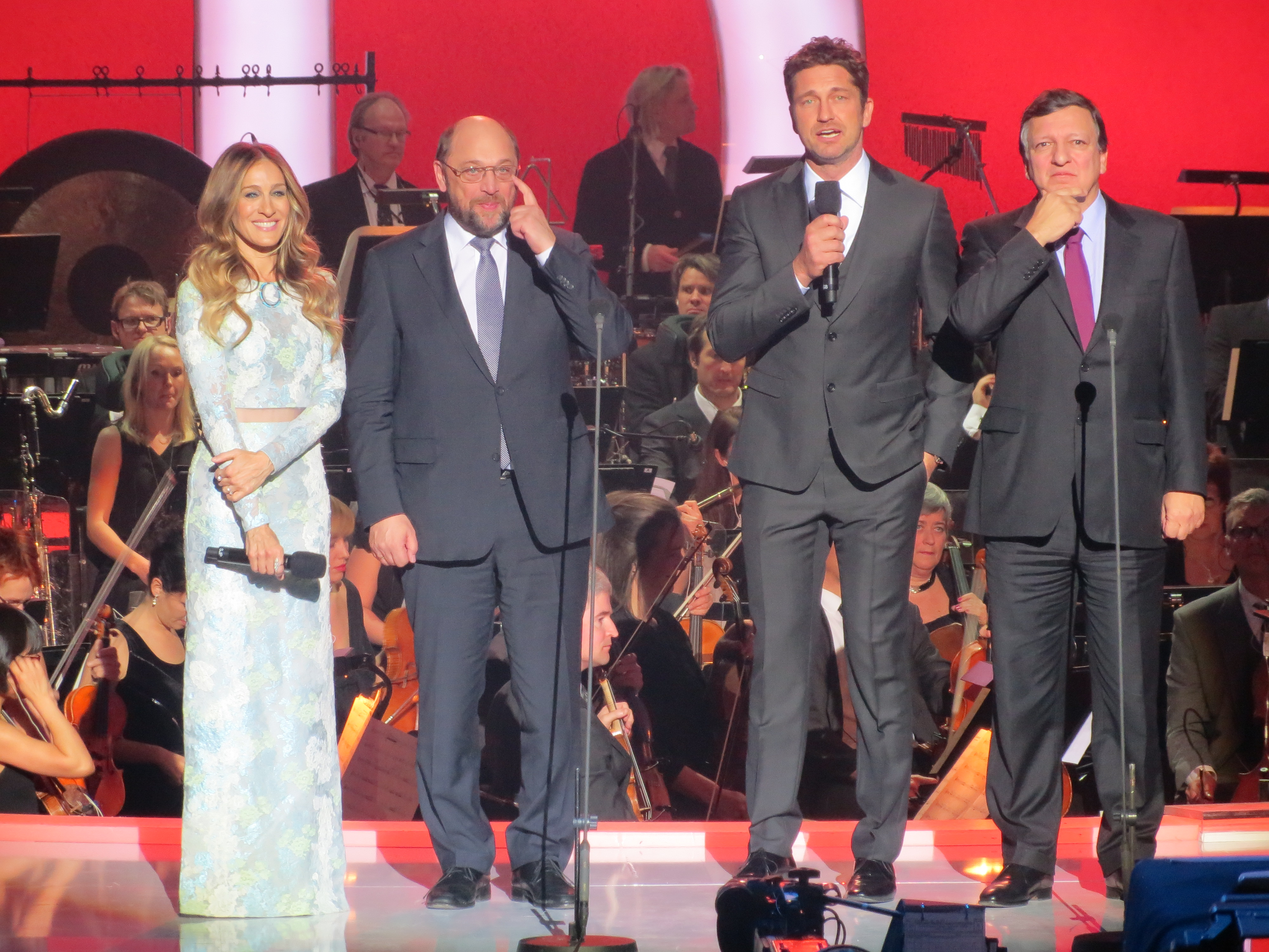 Photo from the 2012 Nobel Peace Prize Concert in Oslo Spektrum arena, Oslo, Norway. Hosts of the evening were Sarah Jessica Parker and Gerard Butler.